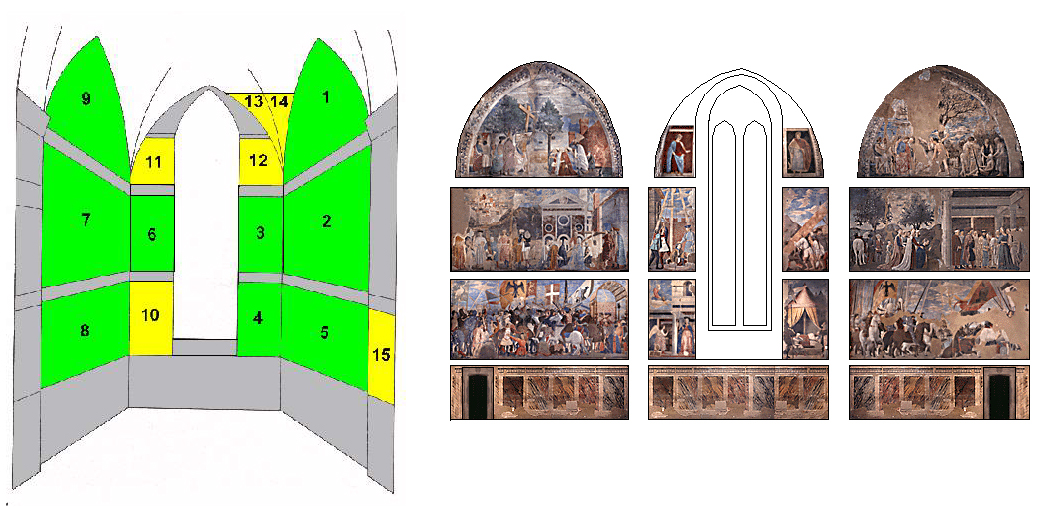 Location of the frescos by Piero della Francesca in the Basilica di San Francesco in Arezzo (Italy).